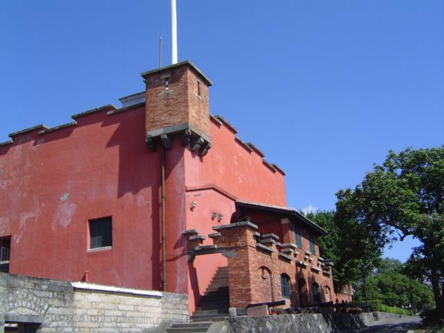 The official consular building. Now a museum.